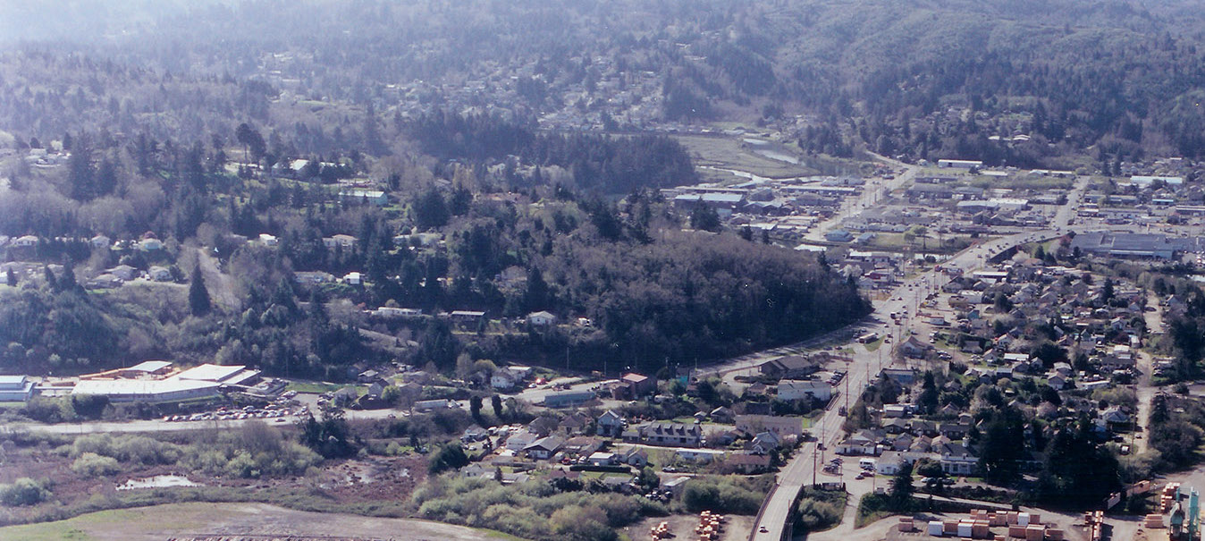 Aerial view of Bunker Hill, Oregon (within the Coos Bay area), from the east